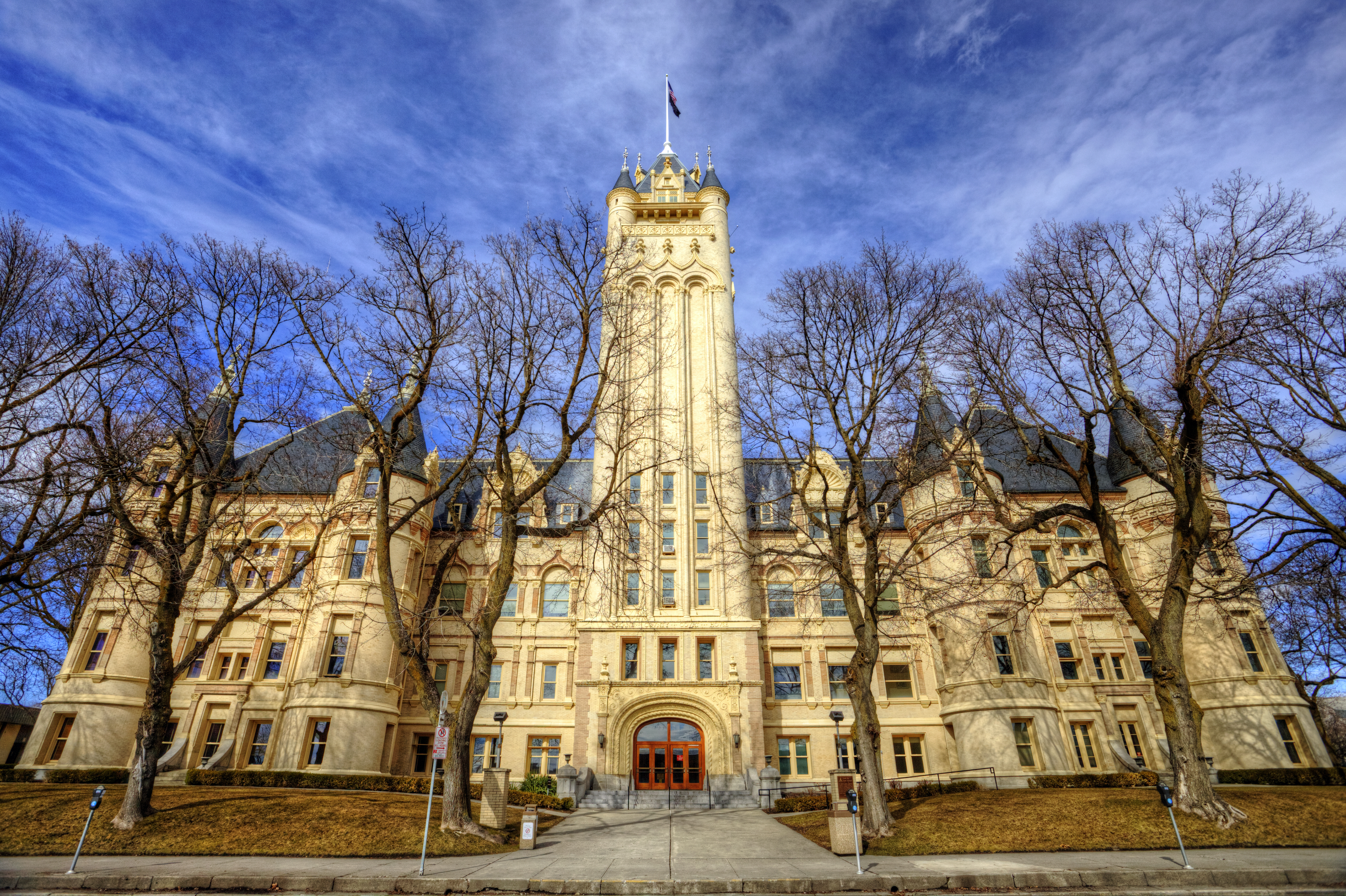 View of the front of the Spokane County Courthouse along W Broadway Avenue in March 2017